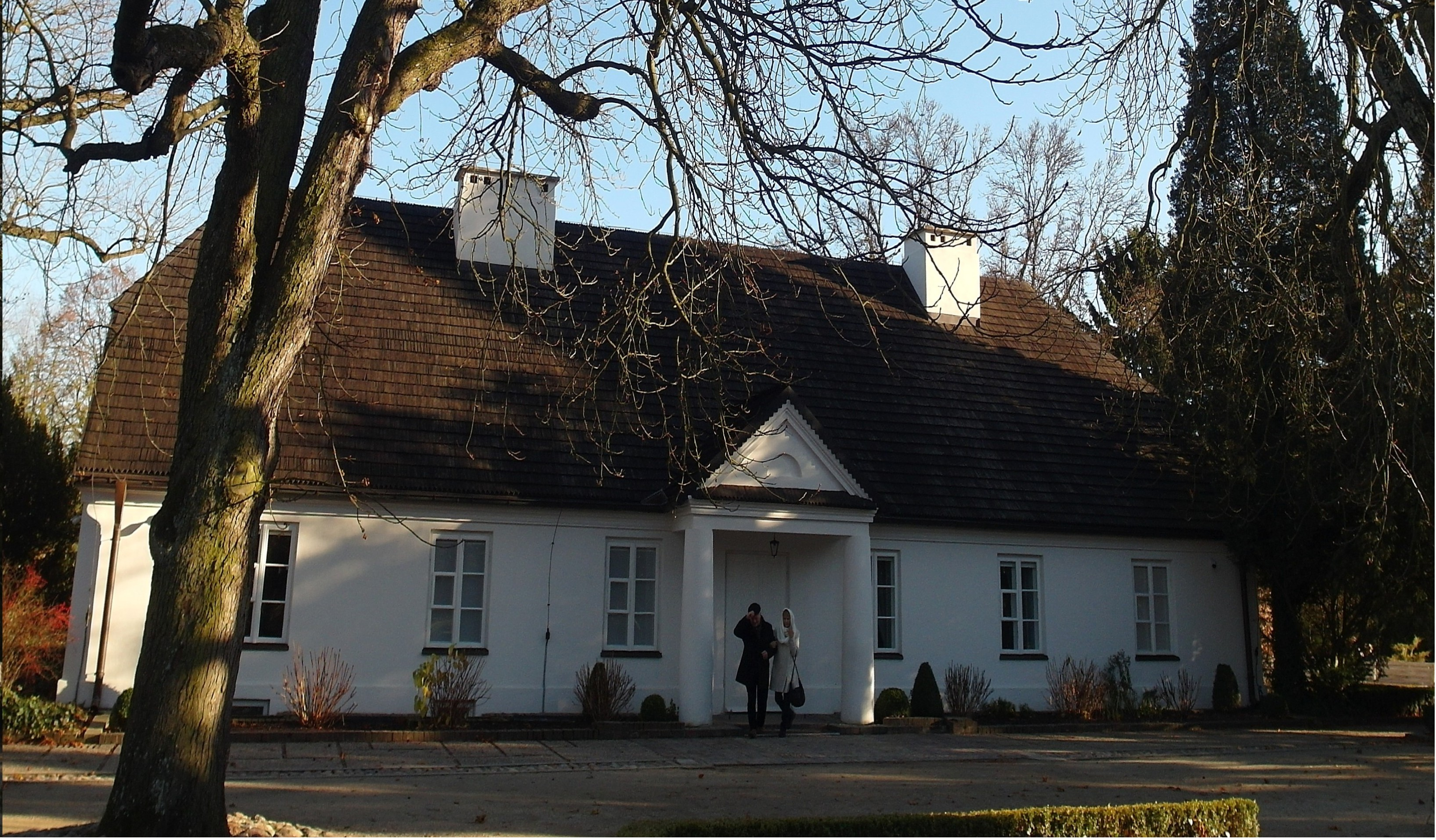 Manor house in Żelazowa Wola